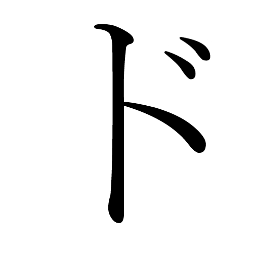 The katana character 'do'.